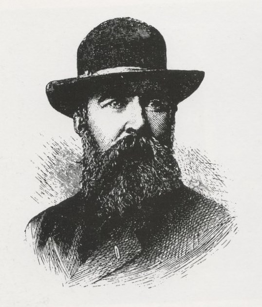 Engraved portrait of "Bruce J. Talbert, 1838-1881," from his obituary in The Cabinet Maker and Art Furnisher, volume 2, number 13 (July 1, 1881), page 4.